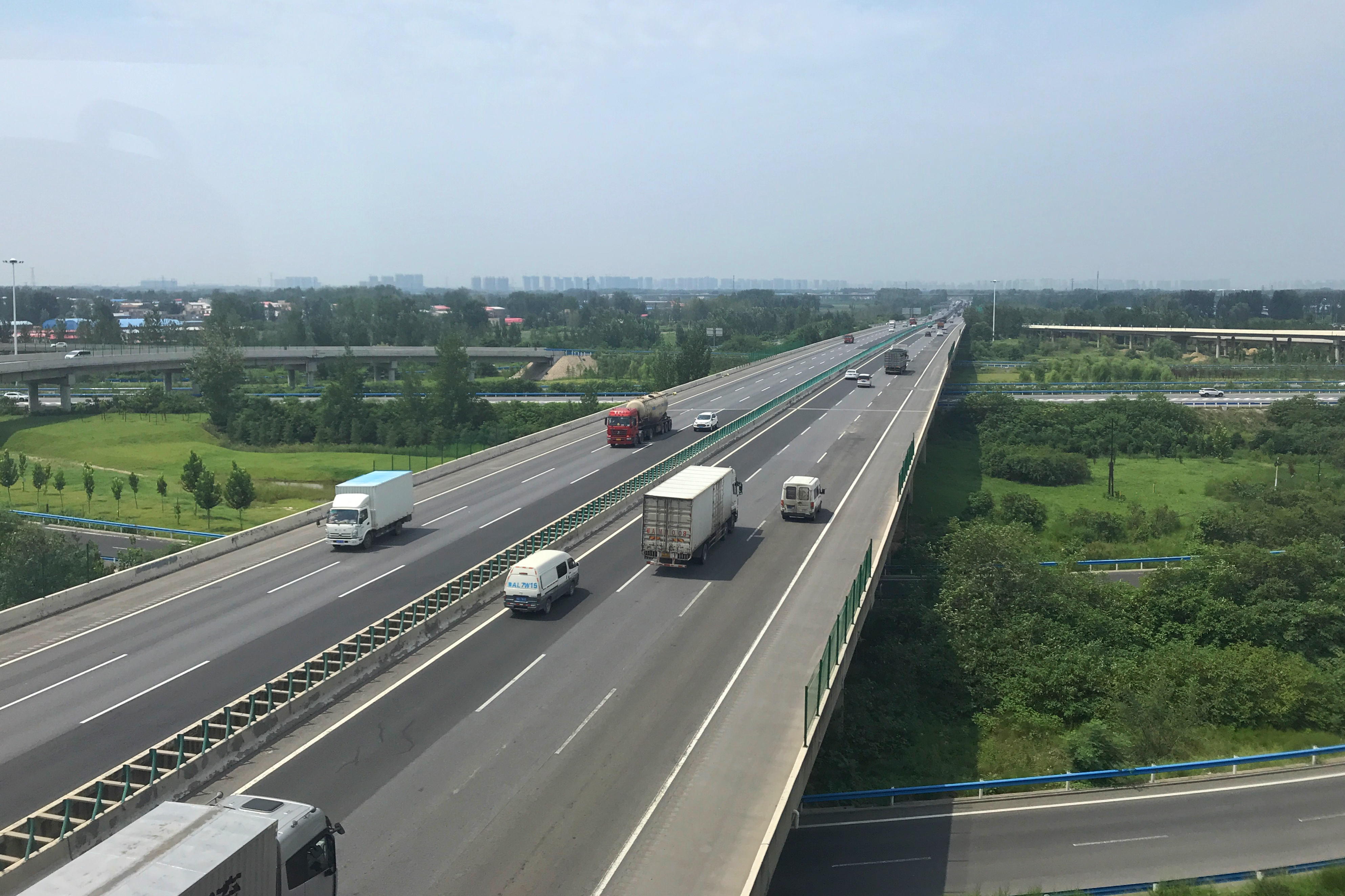 Zhengzhou Southwest Ring Expressway, shot on the train of Zhengzhou-Xinzheng Airport intercity railway